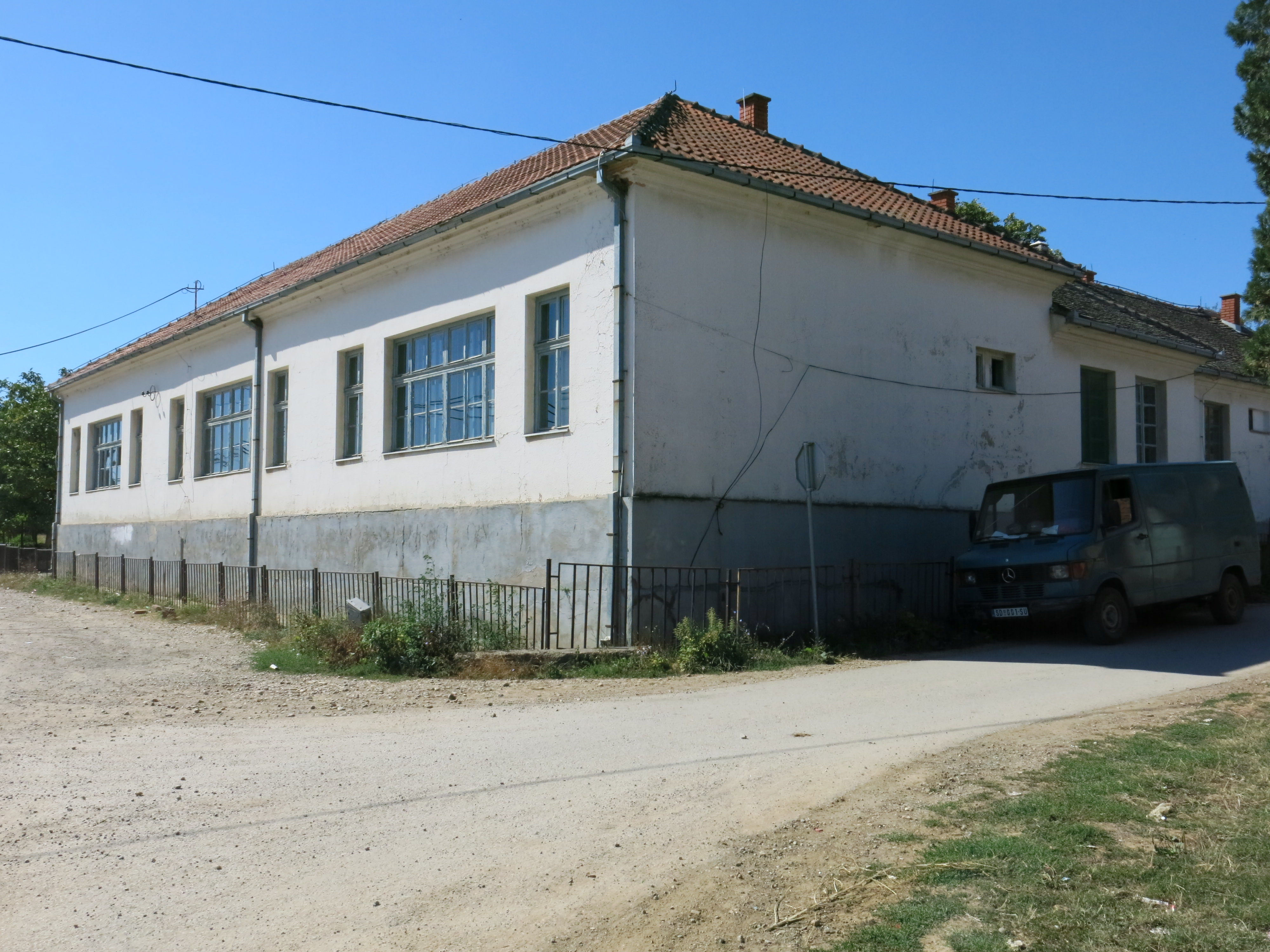 Seone, Elementary school Dimitrije Davidović